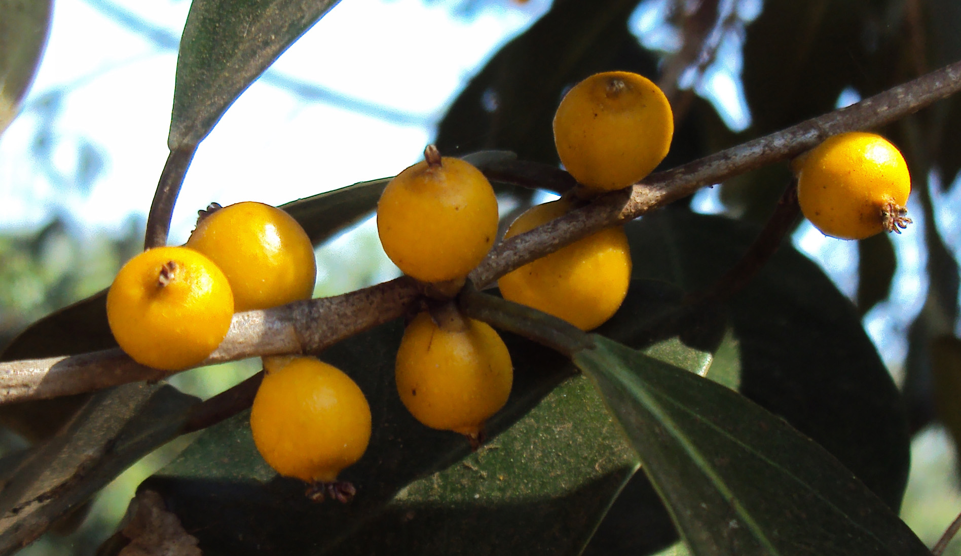 Ficus Microcarpa